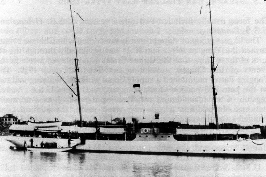 At anchor off Hankow, China. Naval History and Heritage Command photo from "Gunboats and Marines: The United States in China, 1925-1928" by Bernard D. Cole